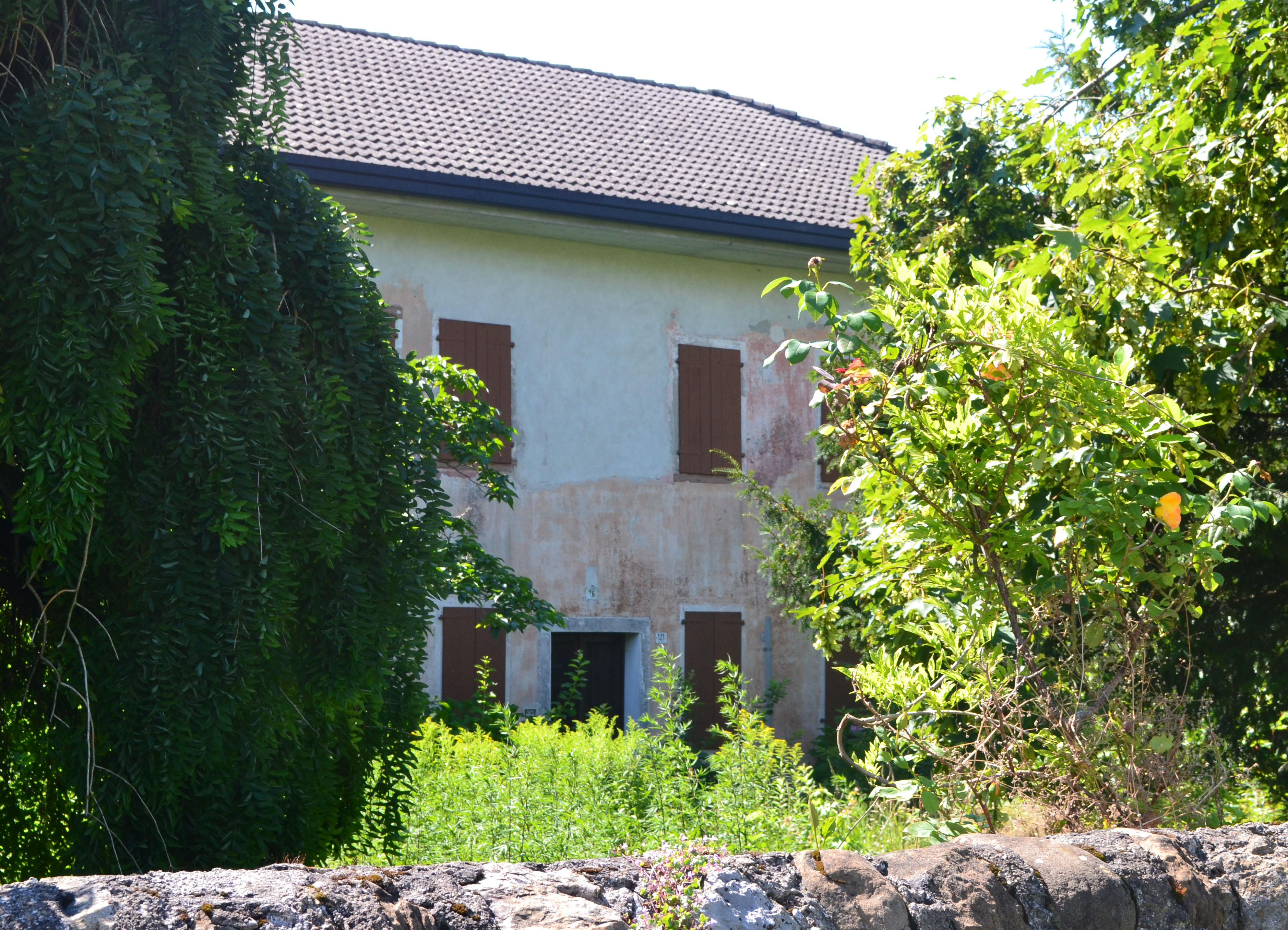 La casa in cui ha vissuto i suoi ultimi anni il poeta e patriota don Sebastiano Barozzi, presso il borgo di Orzes, Belluno